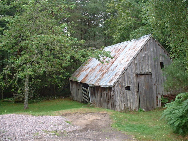 Old sheepfold at Bridgepark nr Aultgowrie.